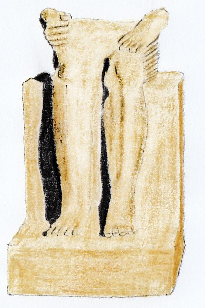 Drawing of a damaged sitting statue of the ancient Egyptian governor Mentuhotep I, posthumously and fictitiously proclaimed king as an ancestor of the 11th Dynasty. A hieroglyphic inscription on the base says: Father of the gods, Mentuhotep the Great, beloved of Satet, lady of Elephantine.Quartzite, from the sanctuary of Heqaib at Elephantine, early 12th Dynasty, Middle Kingdom, now in the Cairo Museum.